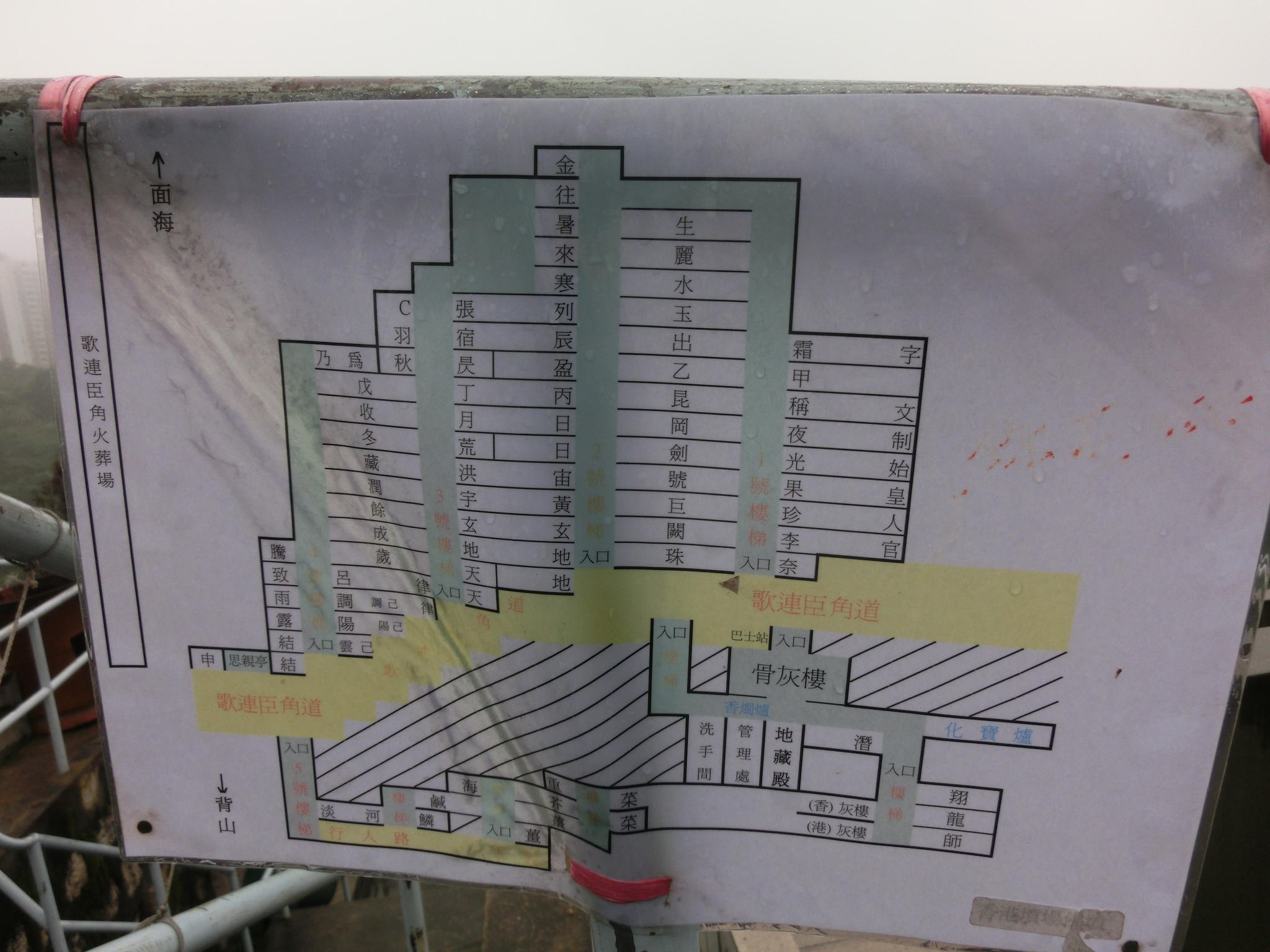 柴灣 香港佛教墳場, Hong Kong Buddhist Cemetery, Cape Collinson Road, Chai Wan, Hong Kong